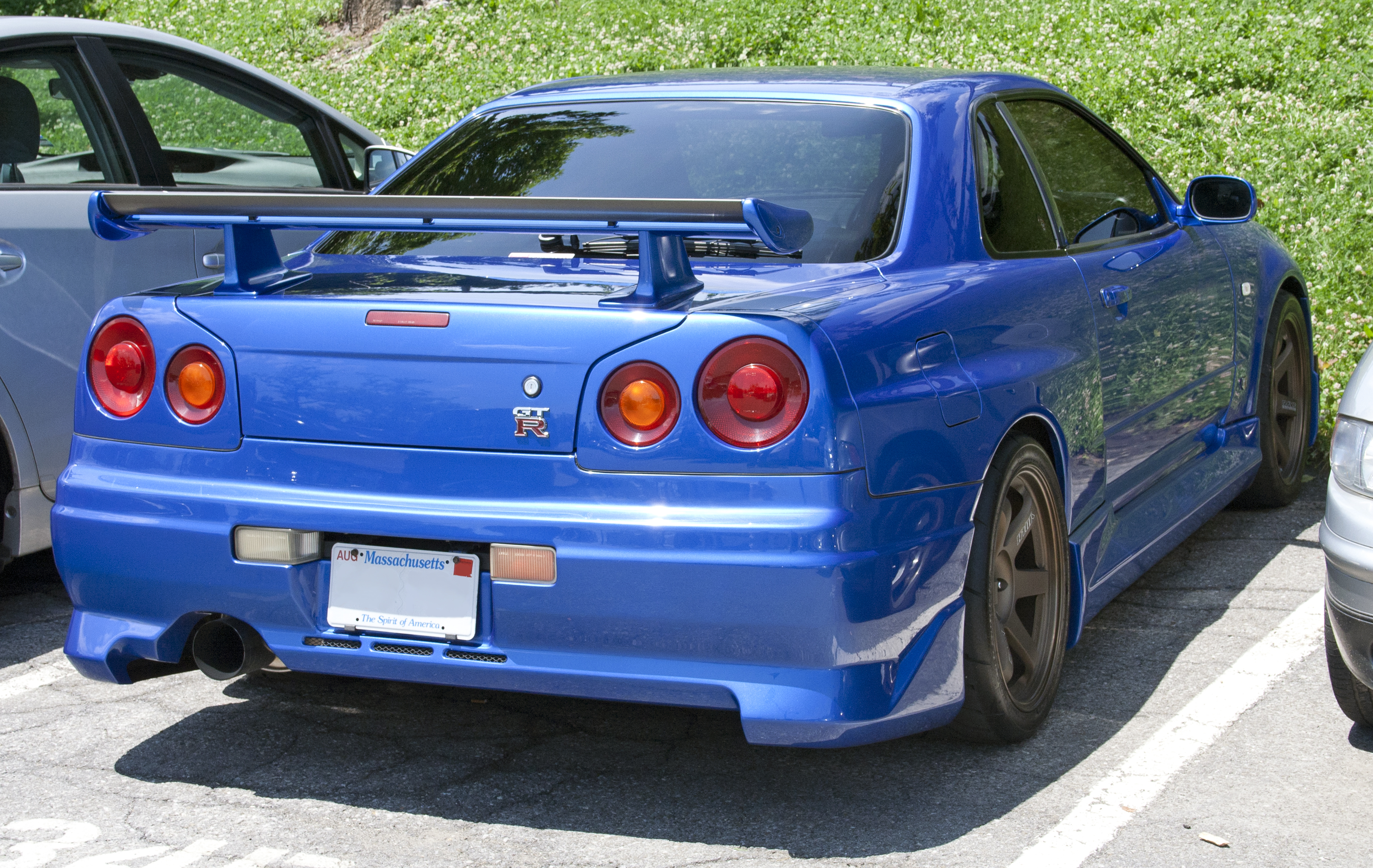 Grey market Nissan Skyline R34 GT-R at the 2012 Greenwich Concours d'Elegance.